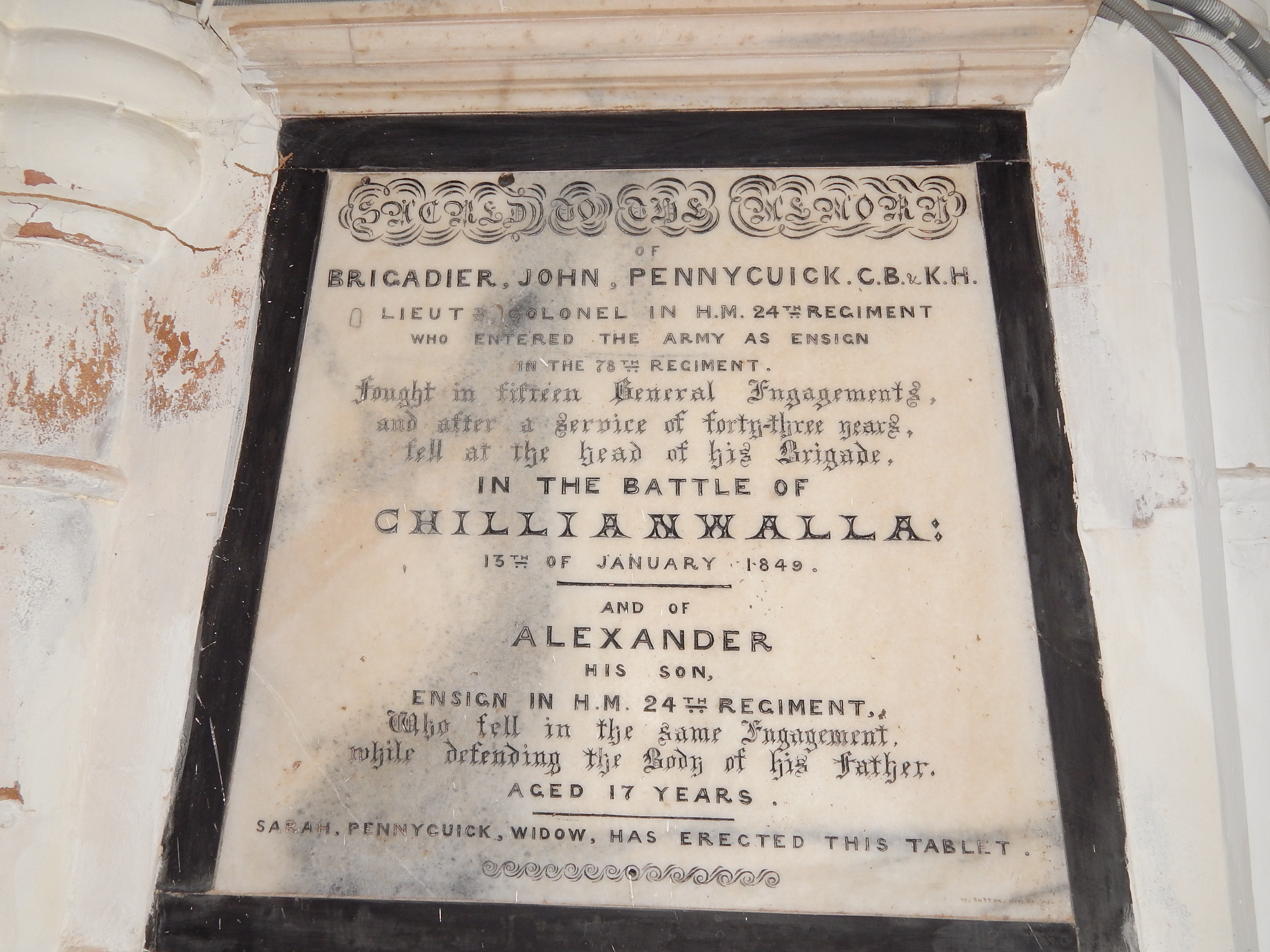 Picture of Plaque erected in the memory of Brigadier John Pennycuick and his son Alexender of 24th Regiment , both of whom died in Battle of Chillianwala, Second Anglo Sikh War on 18 January 1849 by Sarah Pennycuick, widow and mother of deceased.jpg